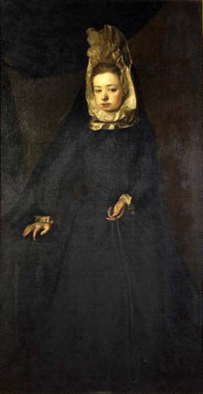 Margaret O'Cahan by Irish Baroque painter Garrett Murphy